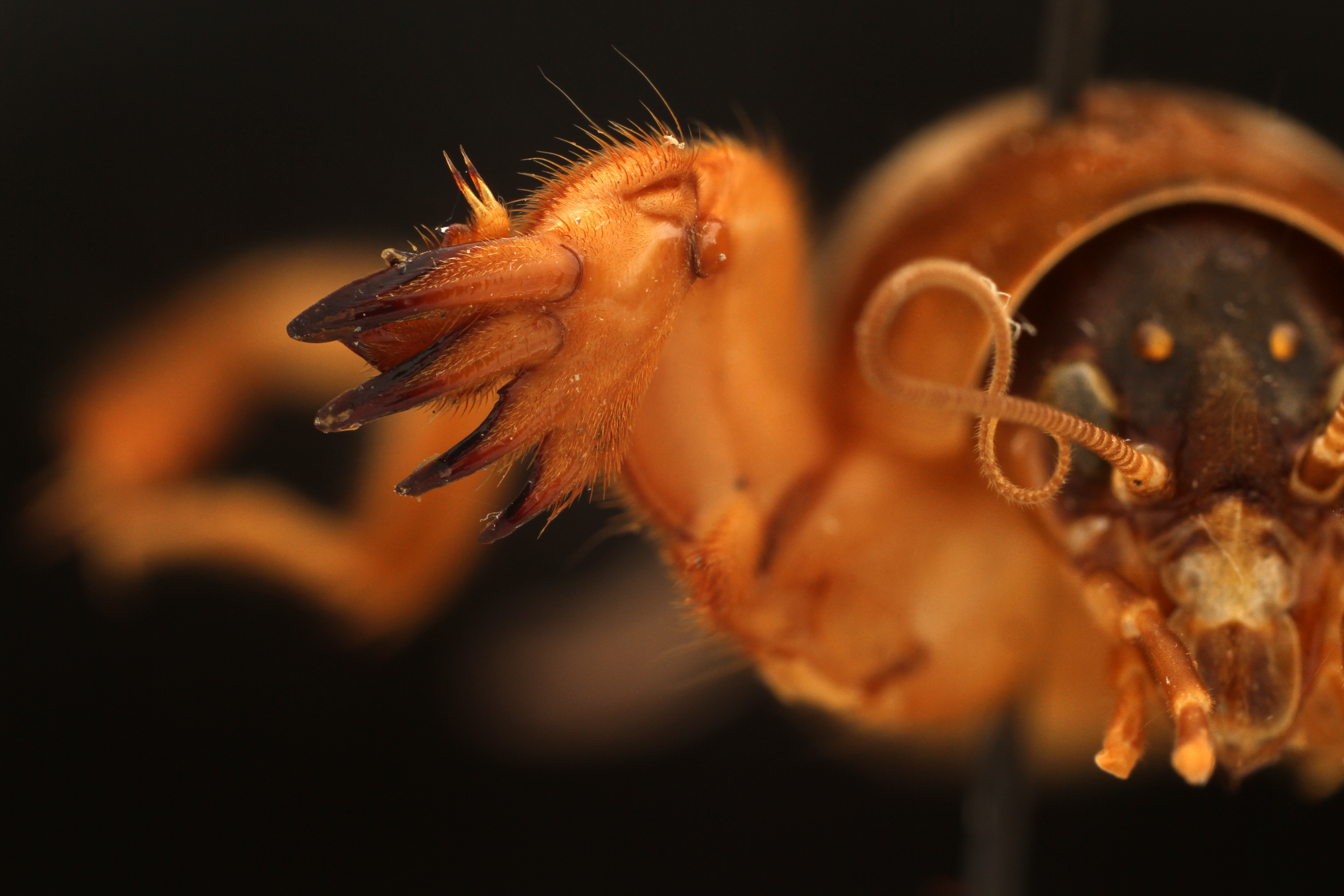 Neocurtilla hexadactyla. The Northern Mole Cricket. The forelimbs are highly developed for digging into the soil